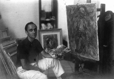 bezalel schtaz young painting